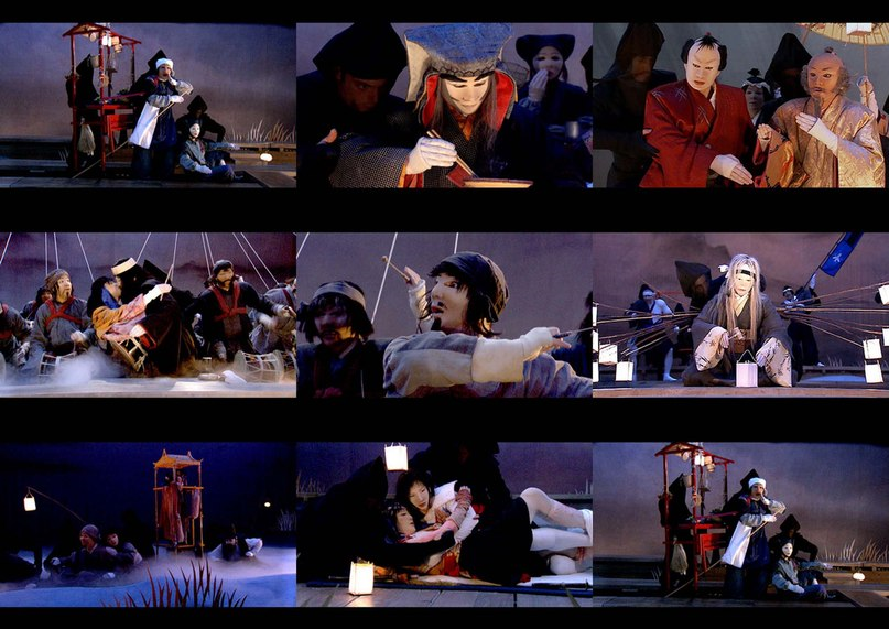 Images from 'The Flood Drummers', Theatre du Soleil's Australian debut at 2002 Sydney Festival